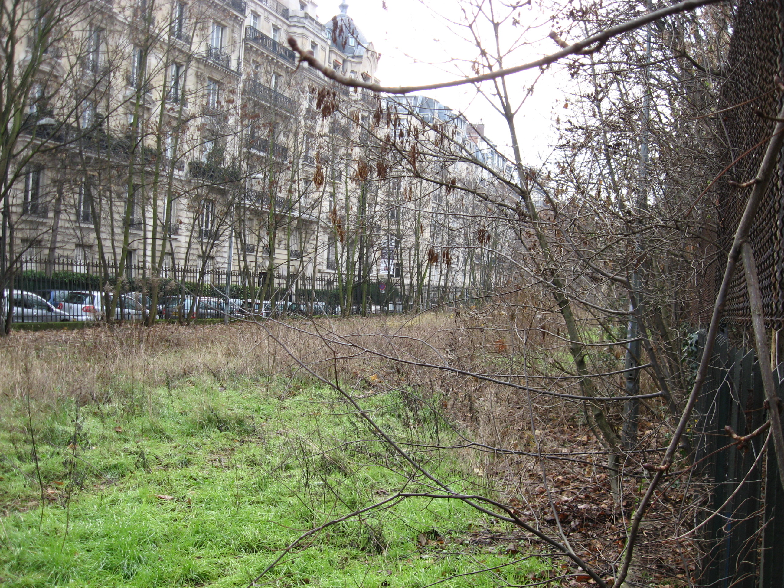 Part of the ligne d'auteuil just behind the station Passy. The line is filled up with ground.